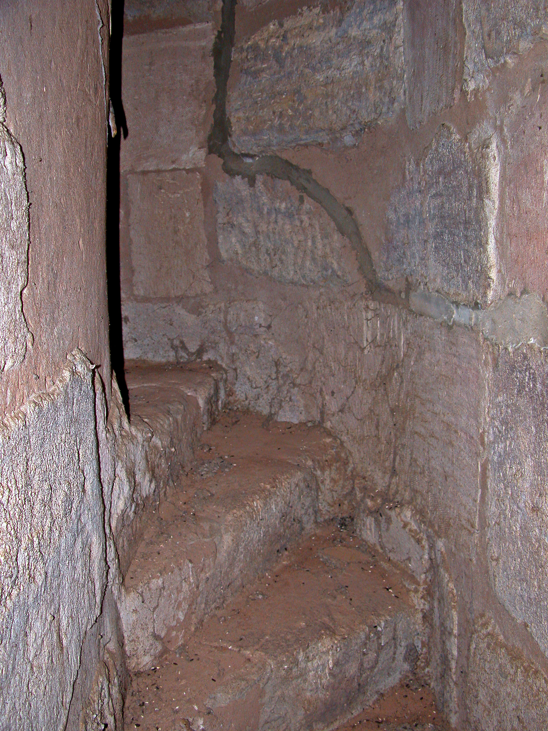 The unique stairwell of the Temple of Maharraqa. It is the only known Egyptian temple in Nubia with a spiral staircase.